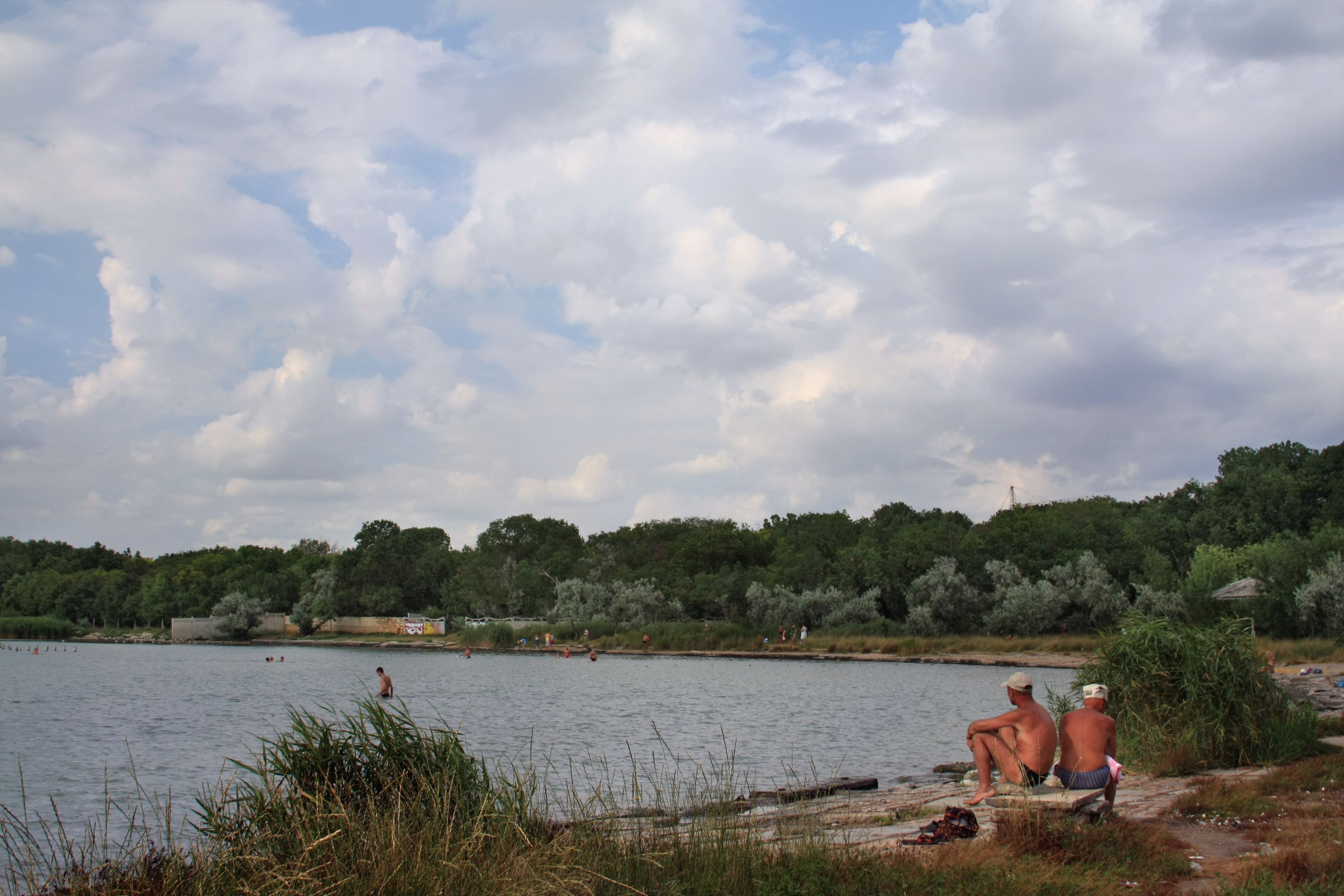 Healing lake Moinaki in Yevpatoria. Crimea